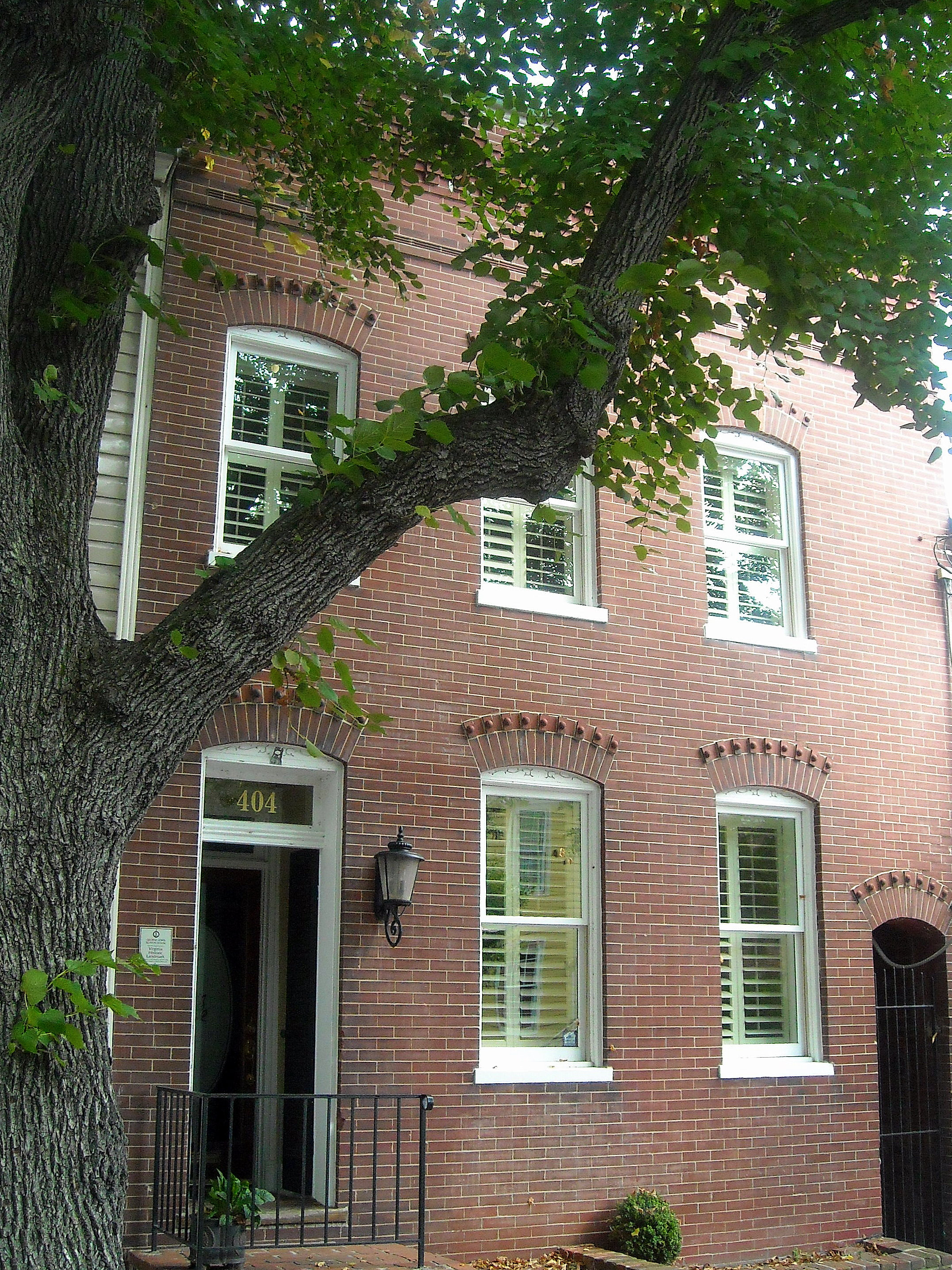 George Lewis Seaton House at 404 S. Royal Street in Old Town Alexandria, Virginia. The building is listed on the National Register of Historic Places and is a contributing property to the Alexandria Historic District, a National Historic Landmark.